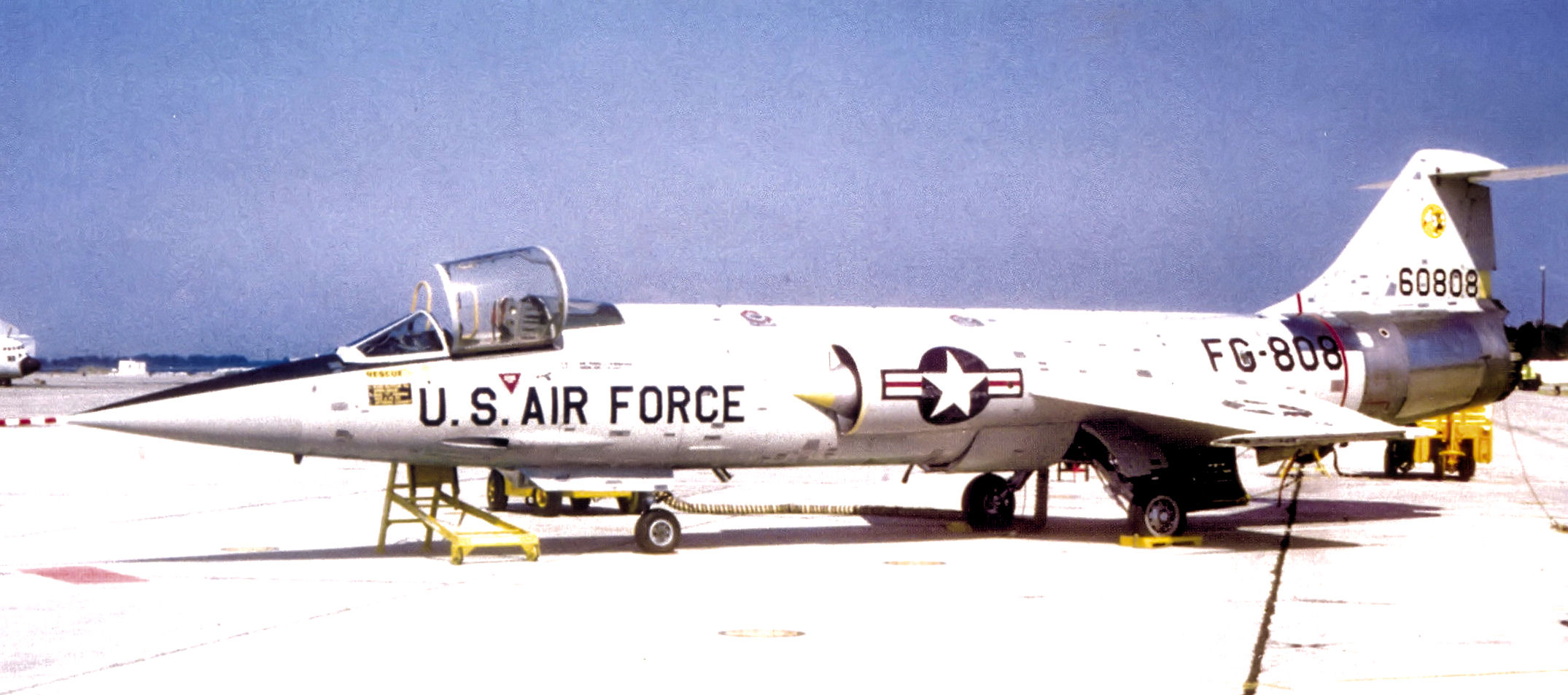 Lockheed F-104A-20-LO Starfighter 56-0808 of the 319th FIS, Homestead AFB, Florida 1964